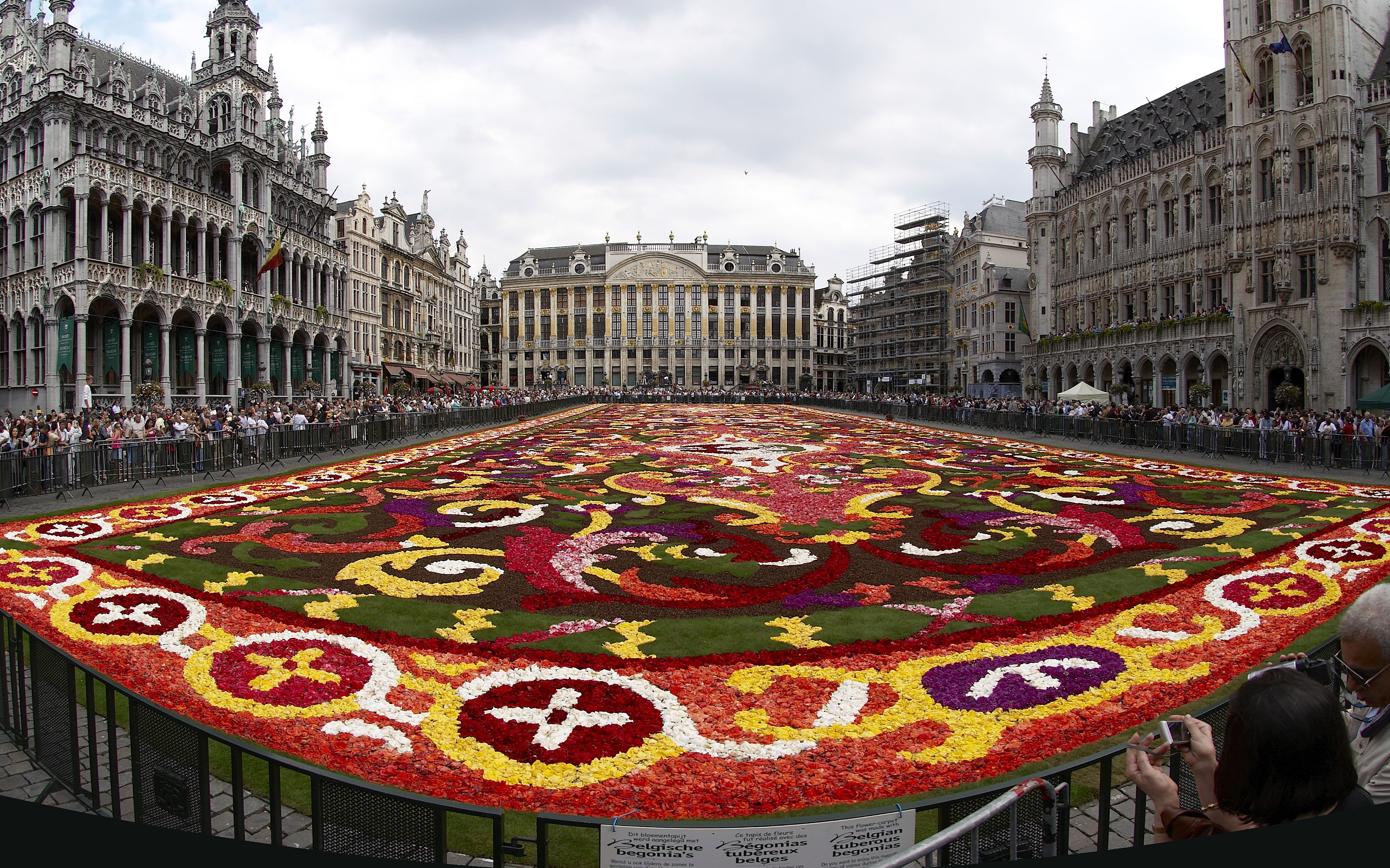 Floral carpet on the Grand Place in Brussels, Belgium